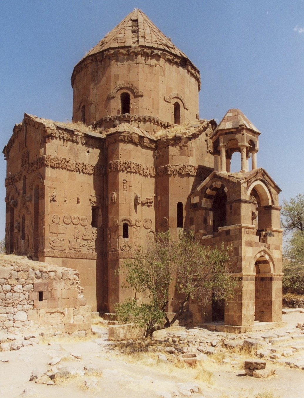 The Church of Akdamar Island, Lake Van, Eastern Anatolia, Turkey. Picture taken by Christian Koehn (fragwürdig), August 2001